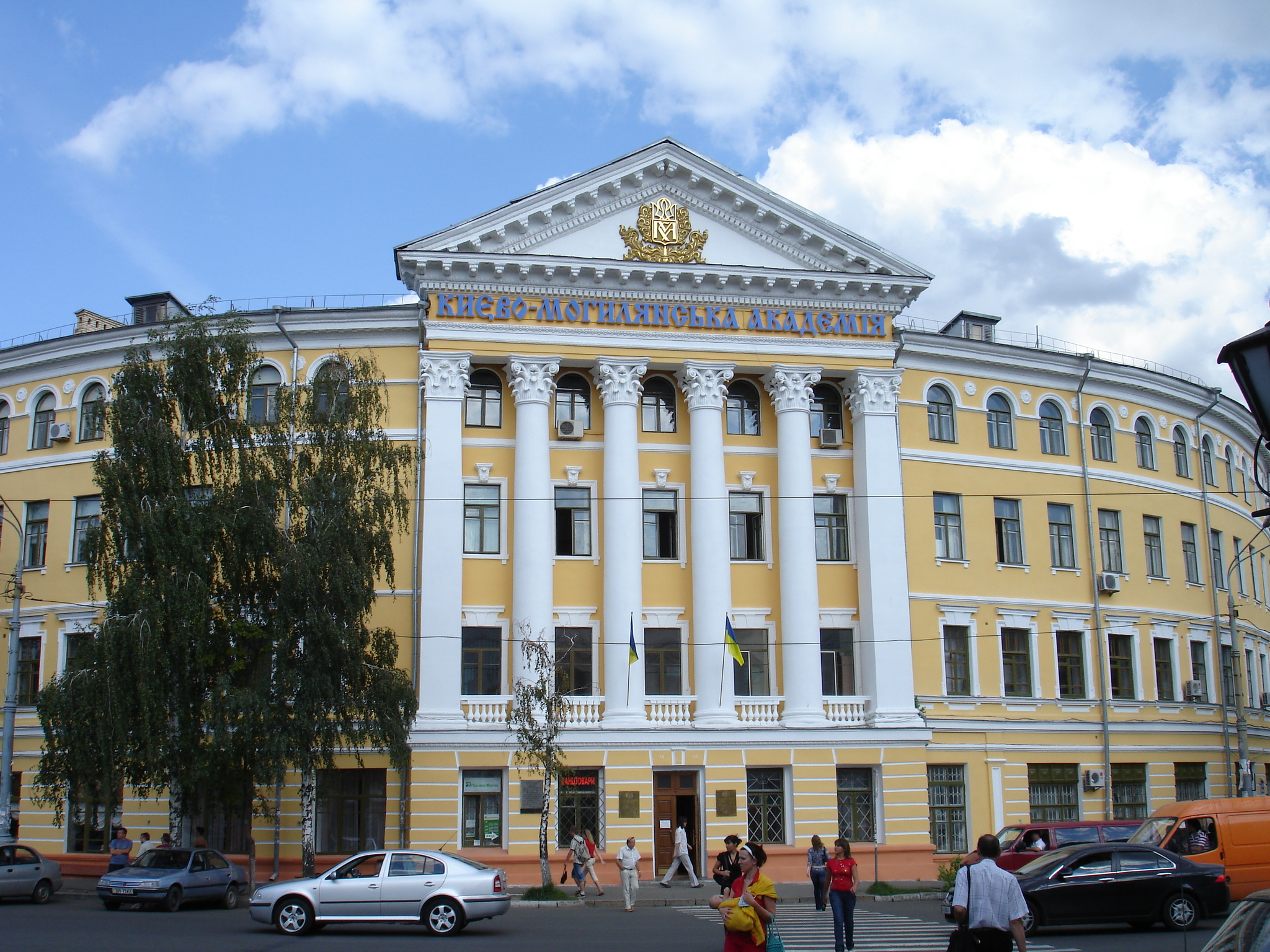 A current image of NaUKMA.